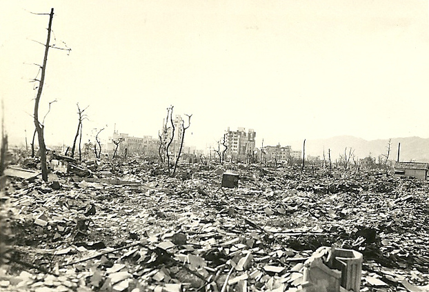 Hiroshima November 1945 taken by LTJG Charles E. Ahl Jr